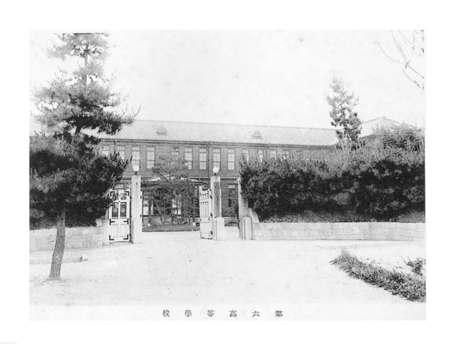 6th national high school, established under former school system, in Okayama city.